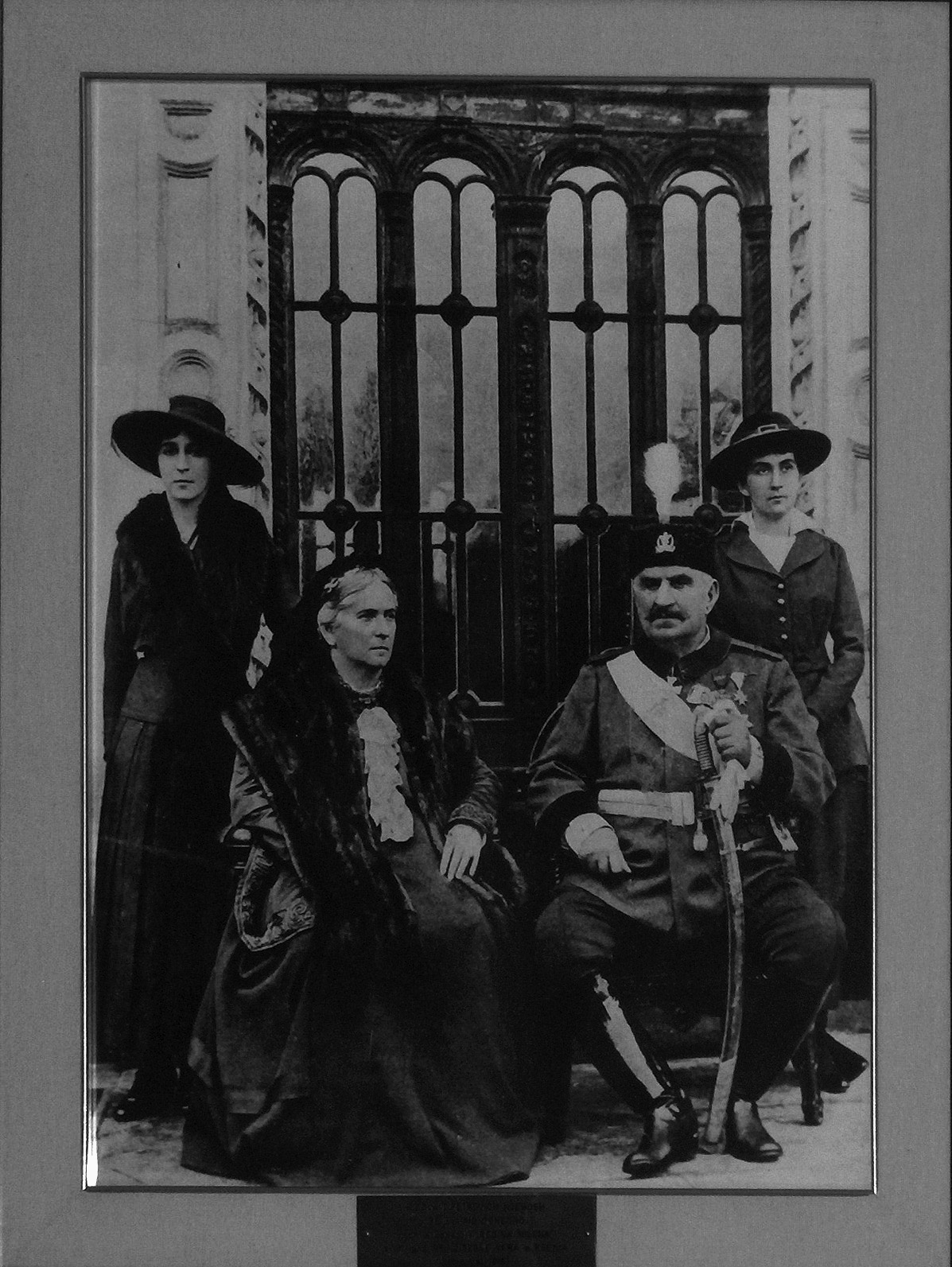 Royal family of Nicholas I of Montenegro (1841-1921); crypt of the Russian Orthodox Church (Church of Christ the Saviour, St. Catherine and St. Seraph). Sanremo, Italy